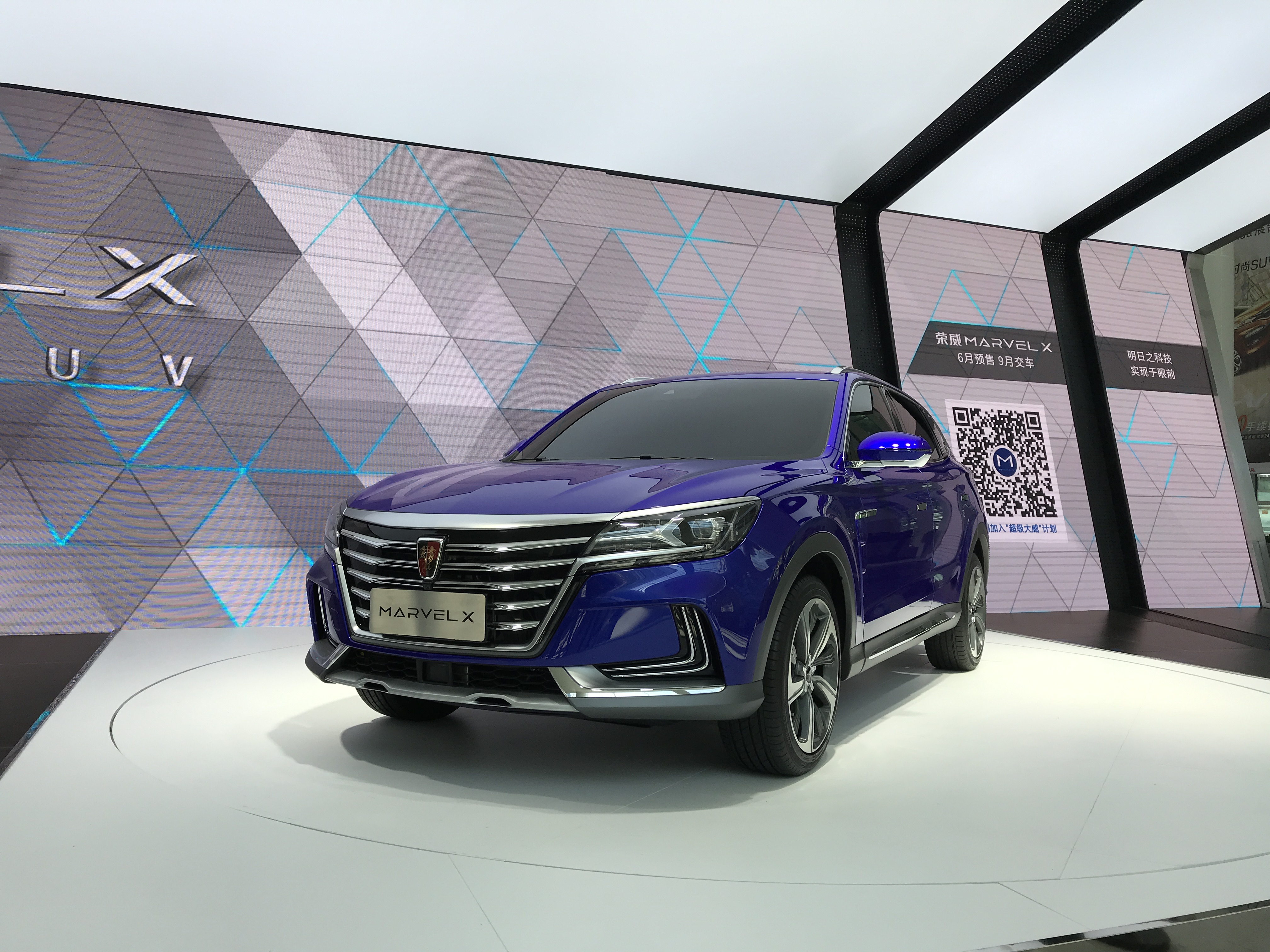 Roewe Marvel X